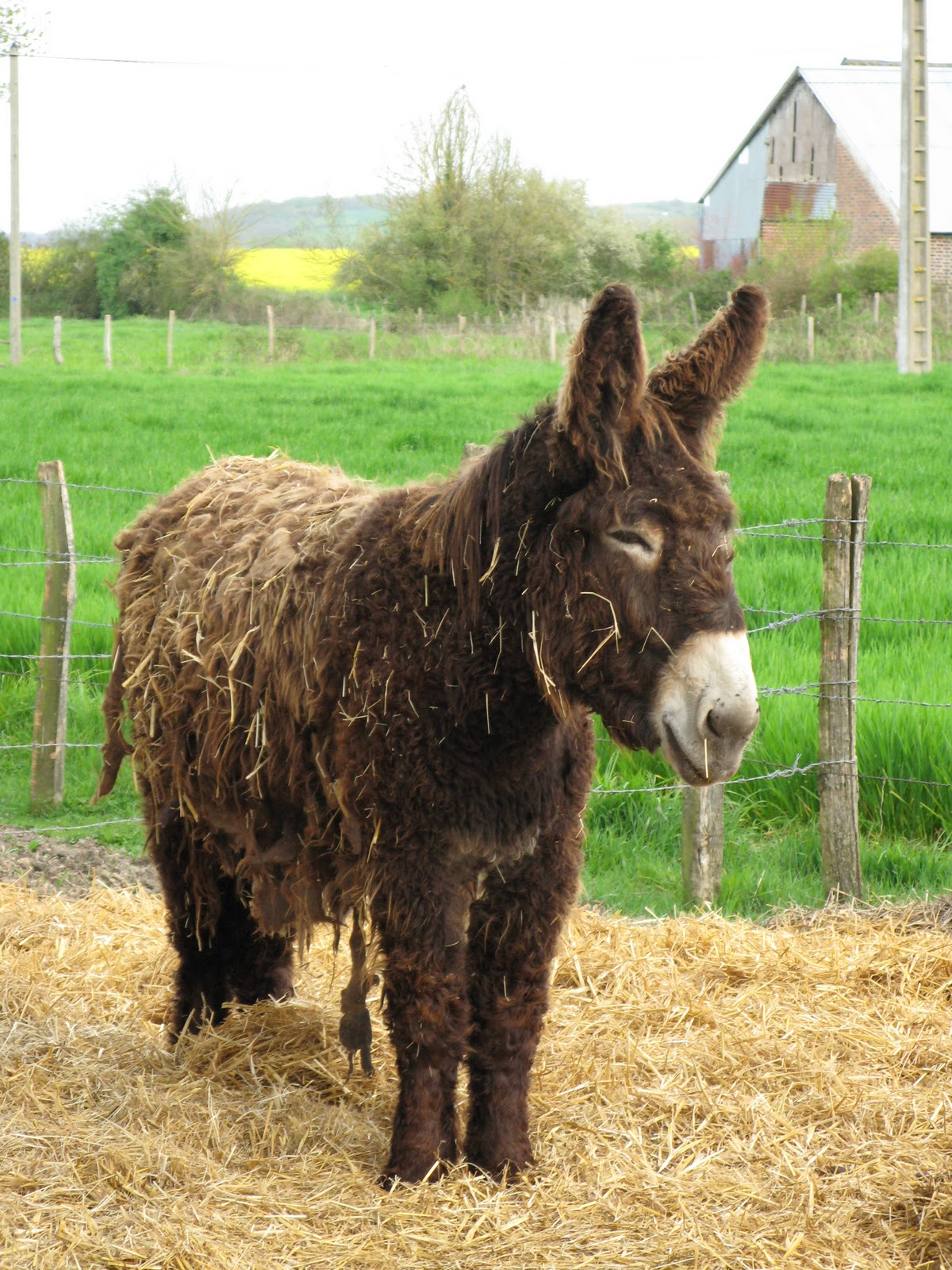 Baudet du Poitou, Loir-et-Cher, France